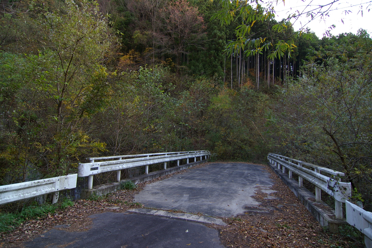 Furusato Rindo Mt.Mitsumori Route (Agi, Nakatsugawa City, Gifu Pref., Japan)